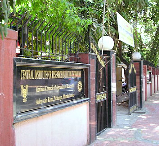 The Institute is situated at Matunga, Mumbai